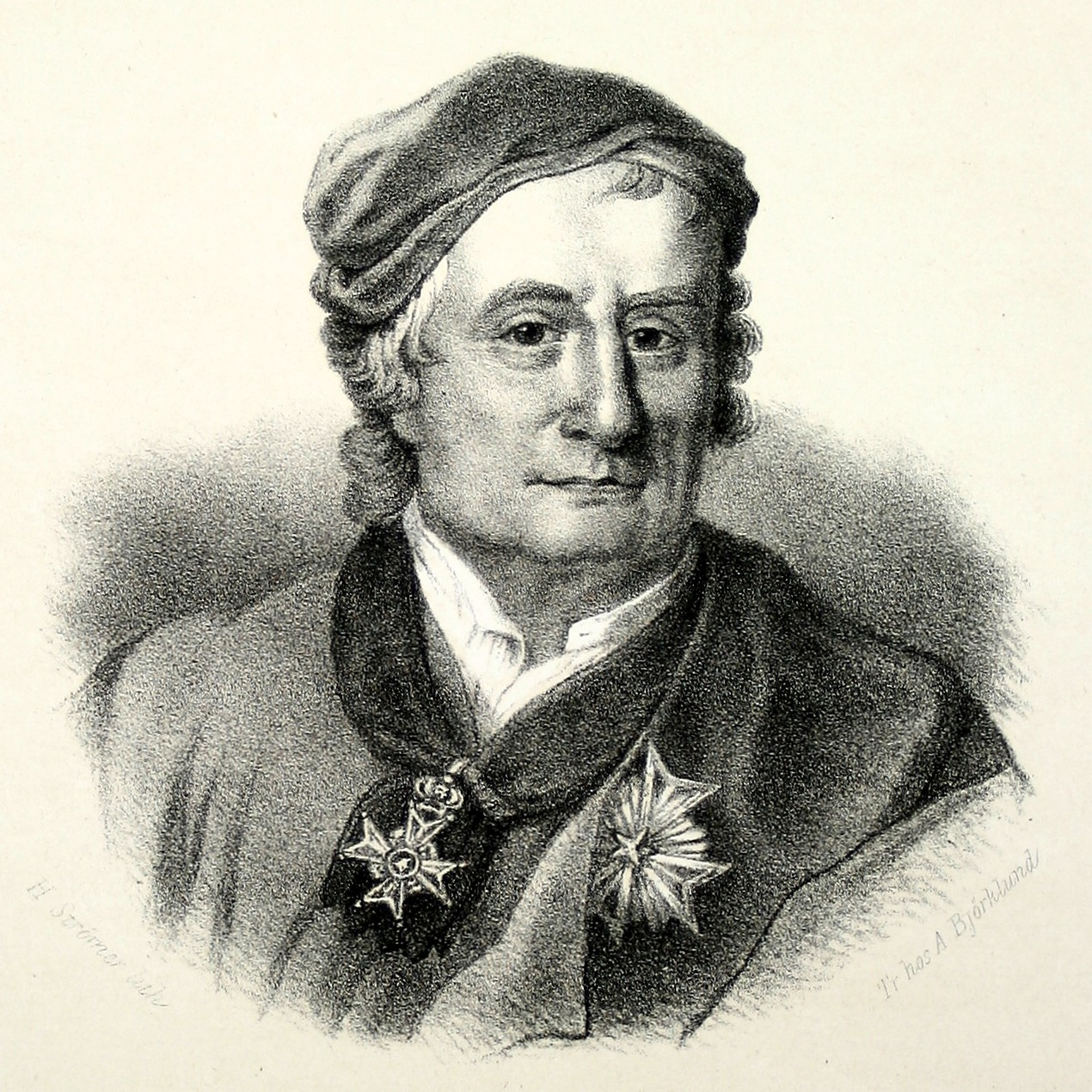 Portrait of Christopher Polhem from the book "Svenska industriens män" (1875)